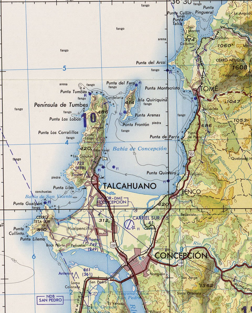 Talcahuano, Concepcion, San Pedro de la Paz, Tome, Chillan, San Carlos, Chiguayante